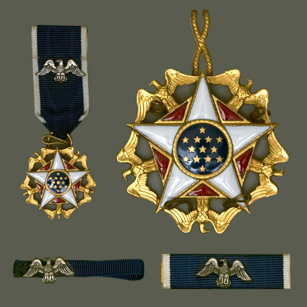 Carl Sandburg's Presidential Medal of Freedom